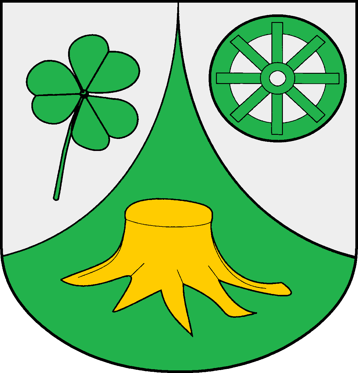 Coat of arms of the municipality Klinkrade in Schleswig-Holstein, Germany.